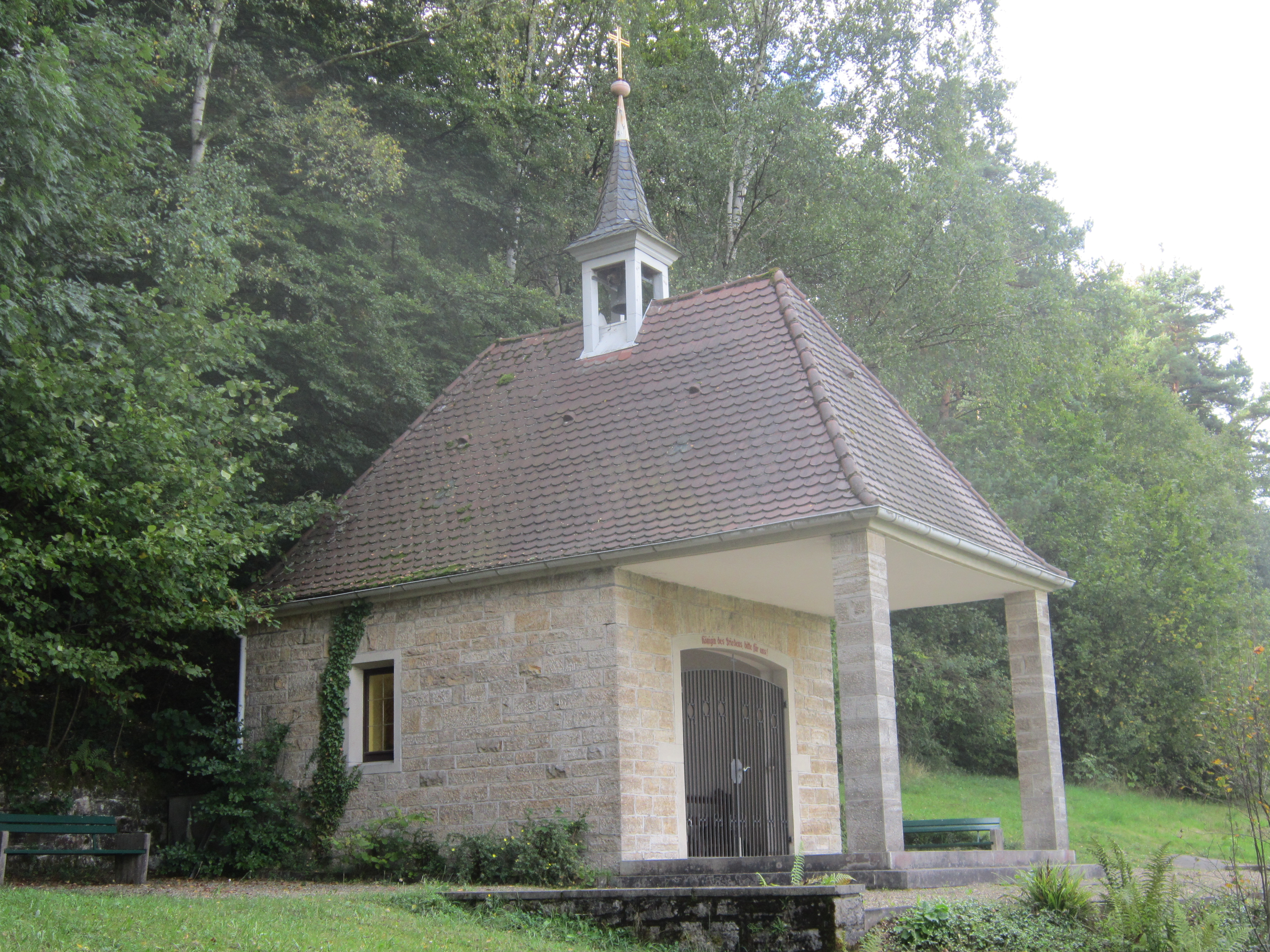 The "Friedenskapelle", a chapel in the German town of Nüdlingen in Lower Franconia (Bavaria).